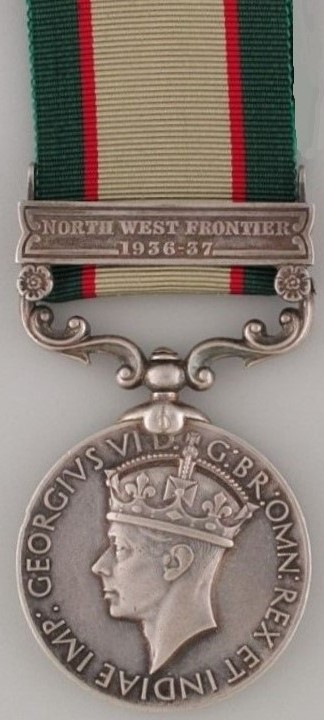 British campaign medal for service on the NW Frontier 1936-39. Obverse.